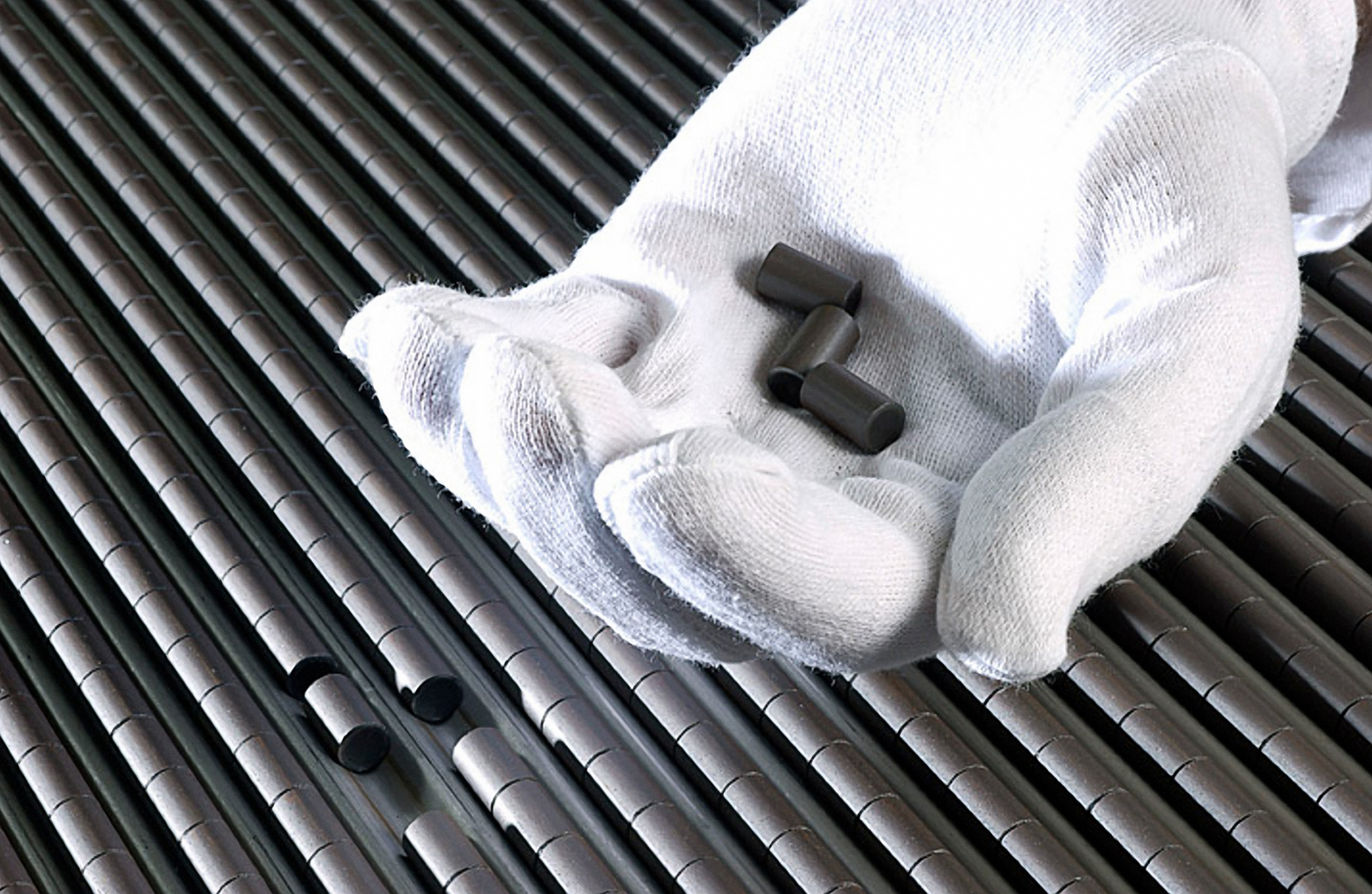 Nuclear fuel pellets are stacked vertically in long metal tubes to power commercial nuclear reactors. There are many steps involved in processing uranium before it is fabricated into nuclear fuel. Courtesy of Areva. Visit the Nuclear Regulatory Commission's website at To comment on this photo go to Photo Usage Guidelines: Privacy Policy